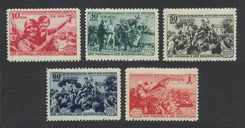 Stamp of USSR